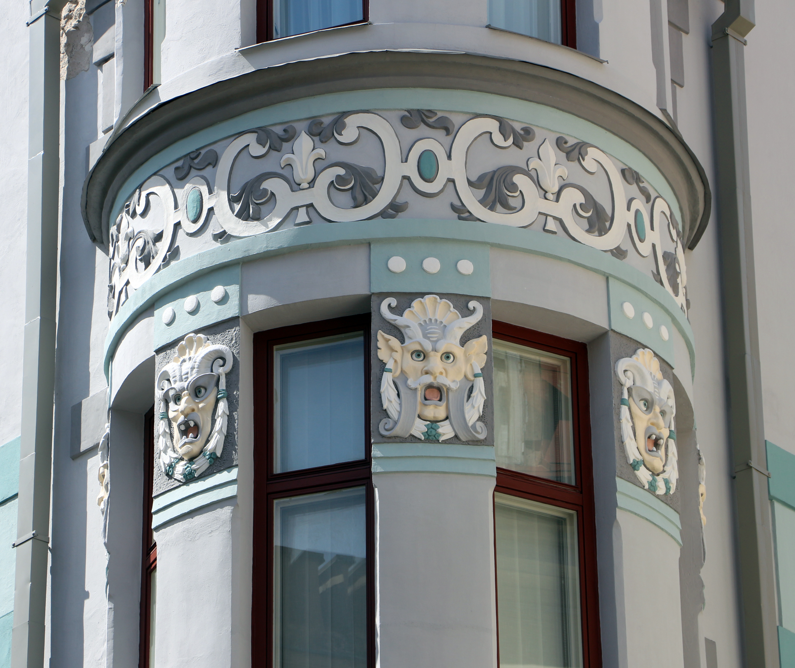 Reichmanni maja